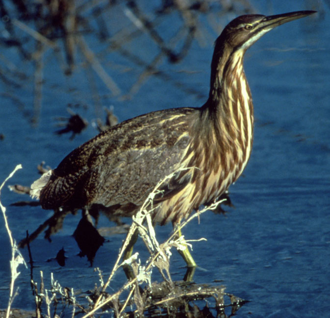 American Bittern (Botaurus lentiginosus) Source: WO4399-006